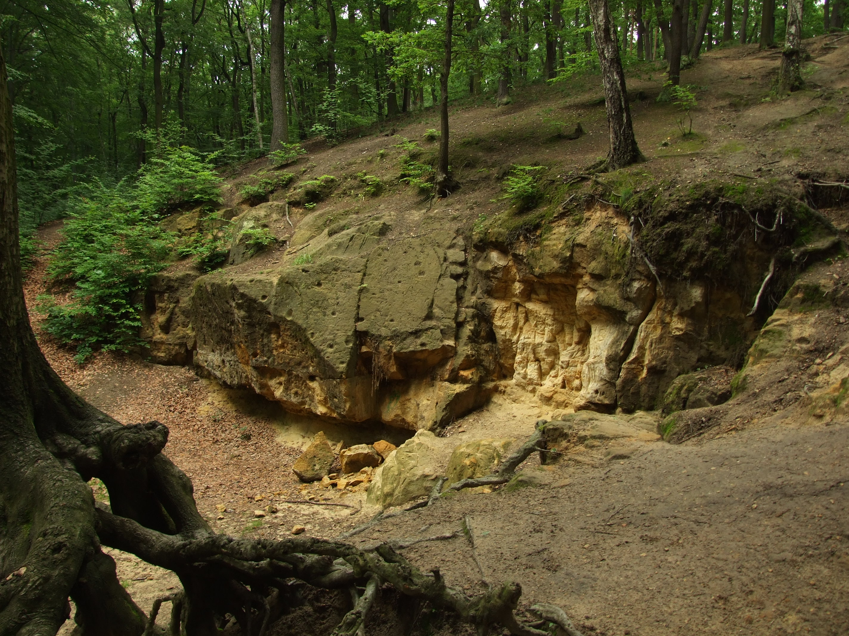 Hvězda park, Prague, CZhelp